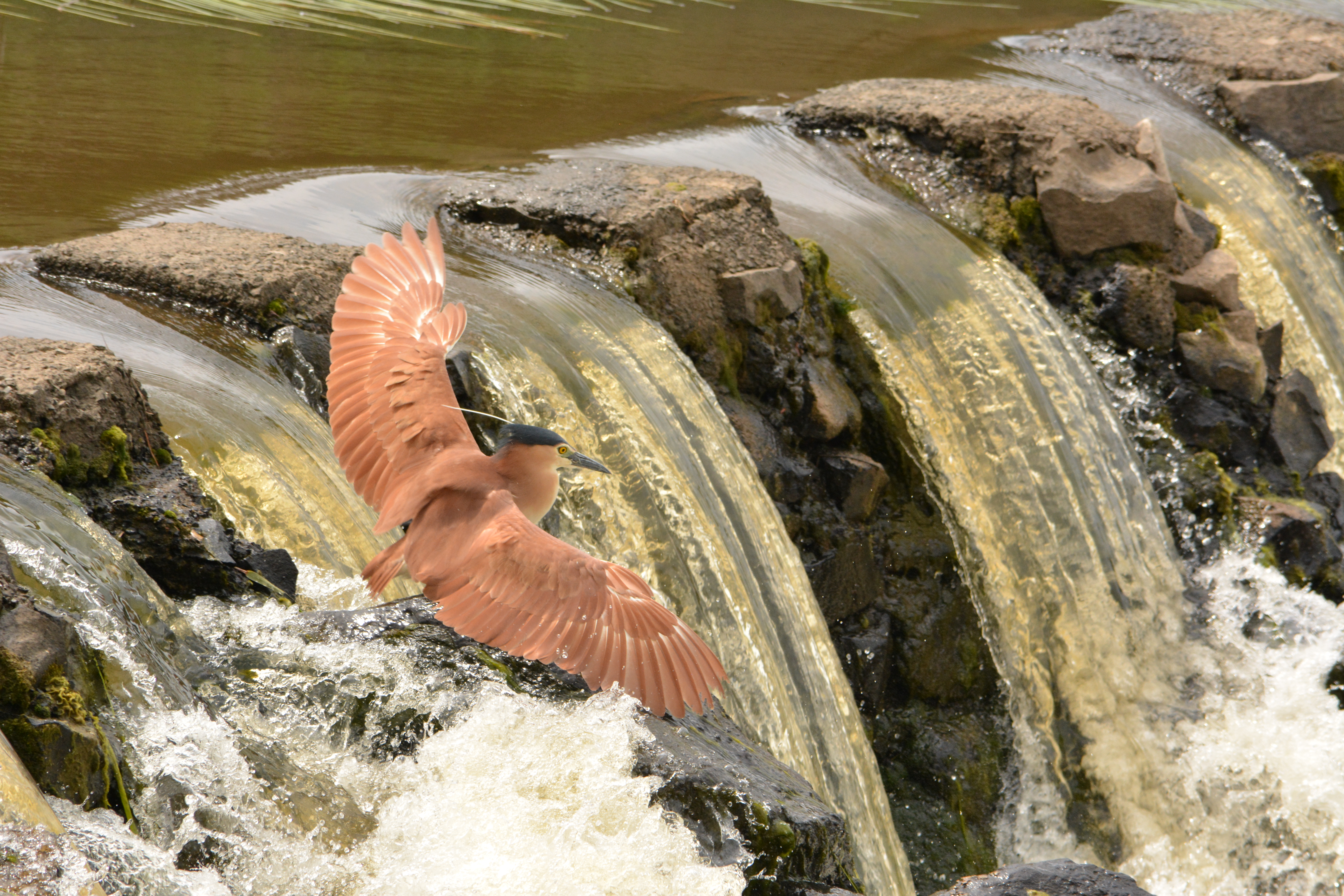 The Nankeen Night Heron [Nycticorax caledonicus] at Buckley Falls on the Barwon river bordering Highton and Fyansford. During breeding, Male and Female display three white nuptial plumes from the back of the head.